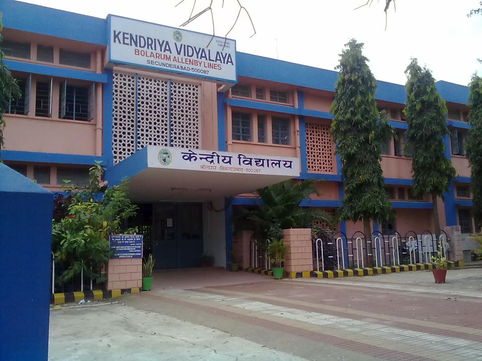 Kendriya Vidyalaya Bolarum